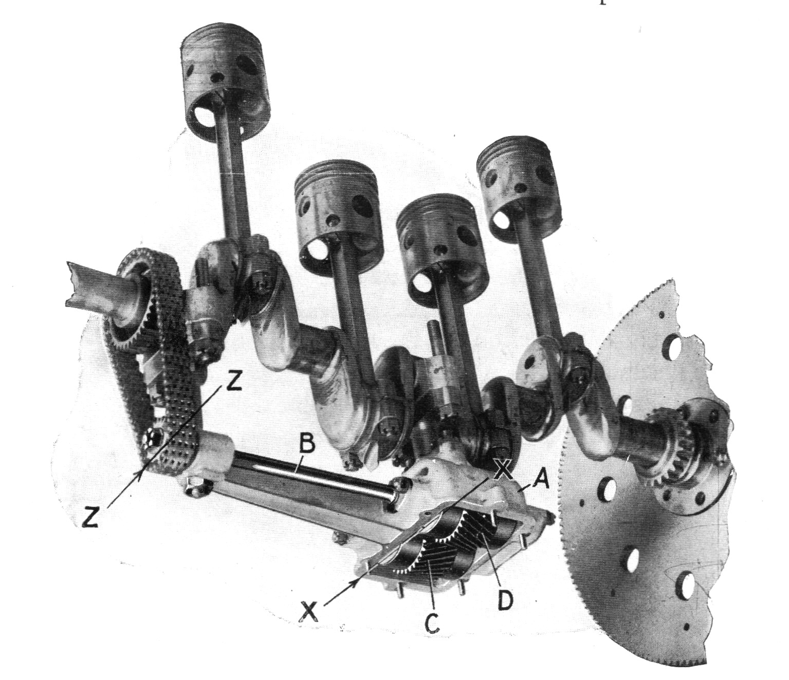 Fig. 31 Lanchester patent harmonic balancer -zx, connected under crankshaft and driven by silent chain